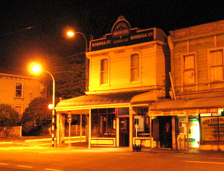 The former site of Bar Bodega (at 278 Willis Street, Wellington) at night. Bar Bodega is a music venue in Wellington, New Zealand.